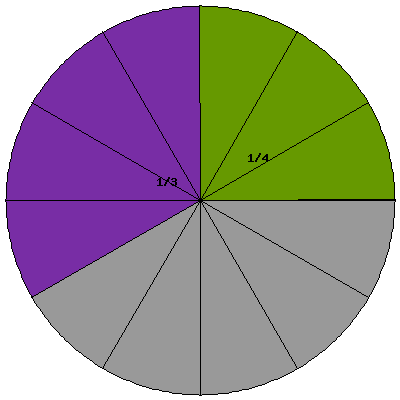 addition: 1/3 + 1/4 = 7/12